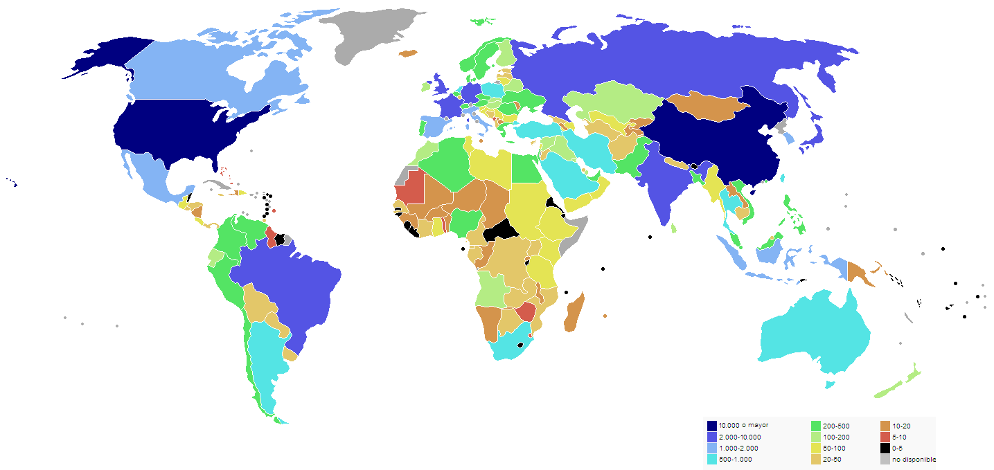 World maps of GDP (PPP), 2010